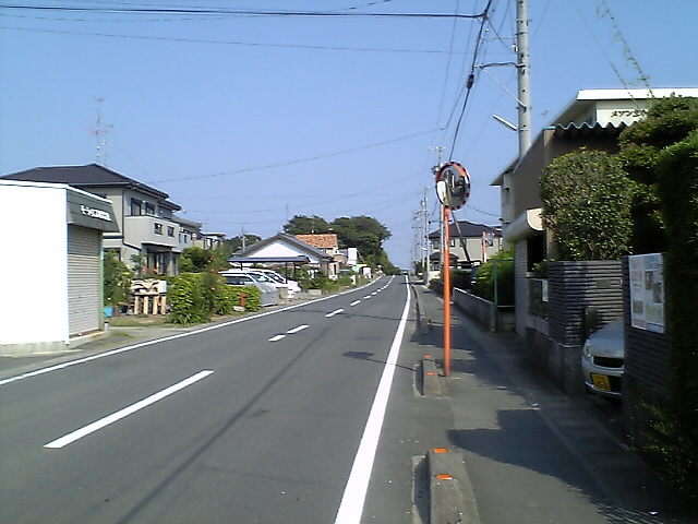 The Aichi Prefectural Road and Shizuoka Prefectural Road Route 3 in Kosai City, Shizuoka Prefecture